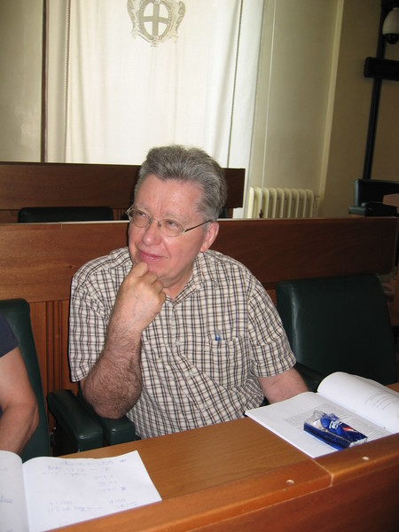 Photograph of category theorist André Joyal taken by Andrej Bauer at 3rd Workshop on Formal Topology, Padova, May 2007